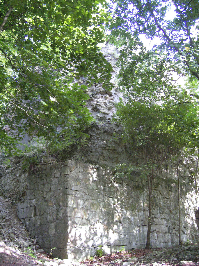 Ruin of the Donjon of Winzenburg Castle, Winzenburg, Lower Saxony, Germany.